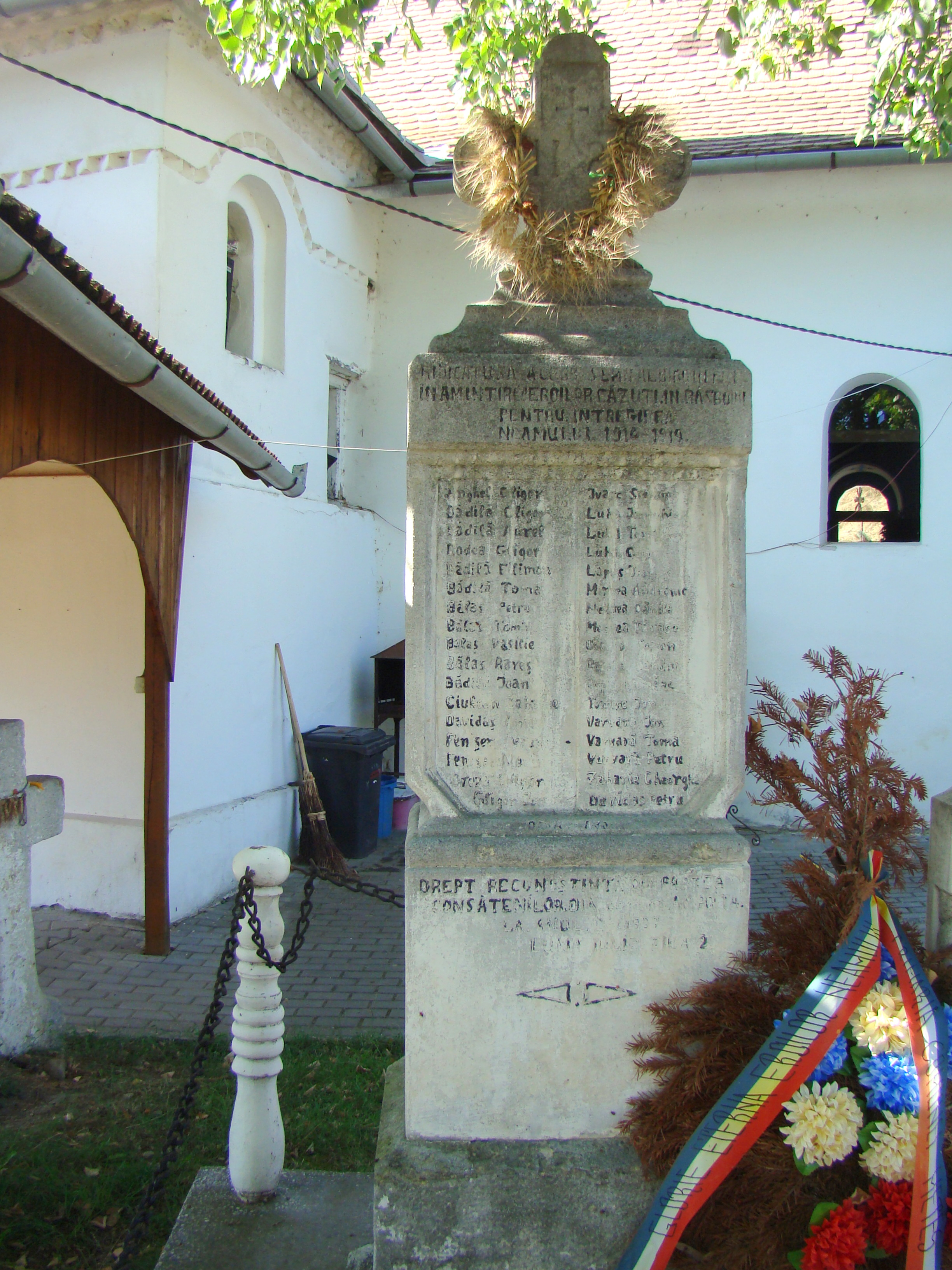 Saint Paraskeva's church in Ampoița, Alba county, Romania